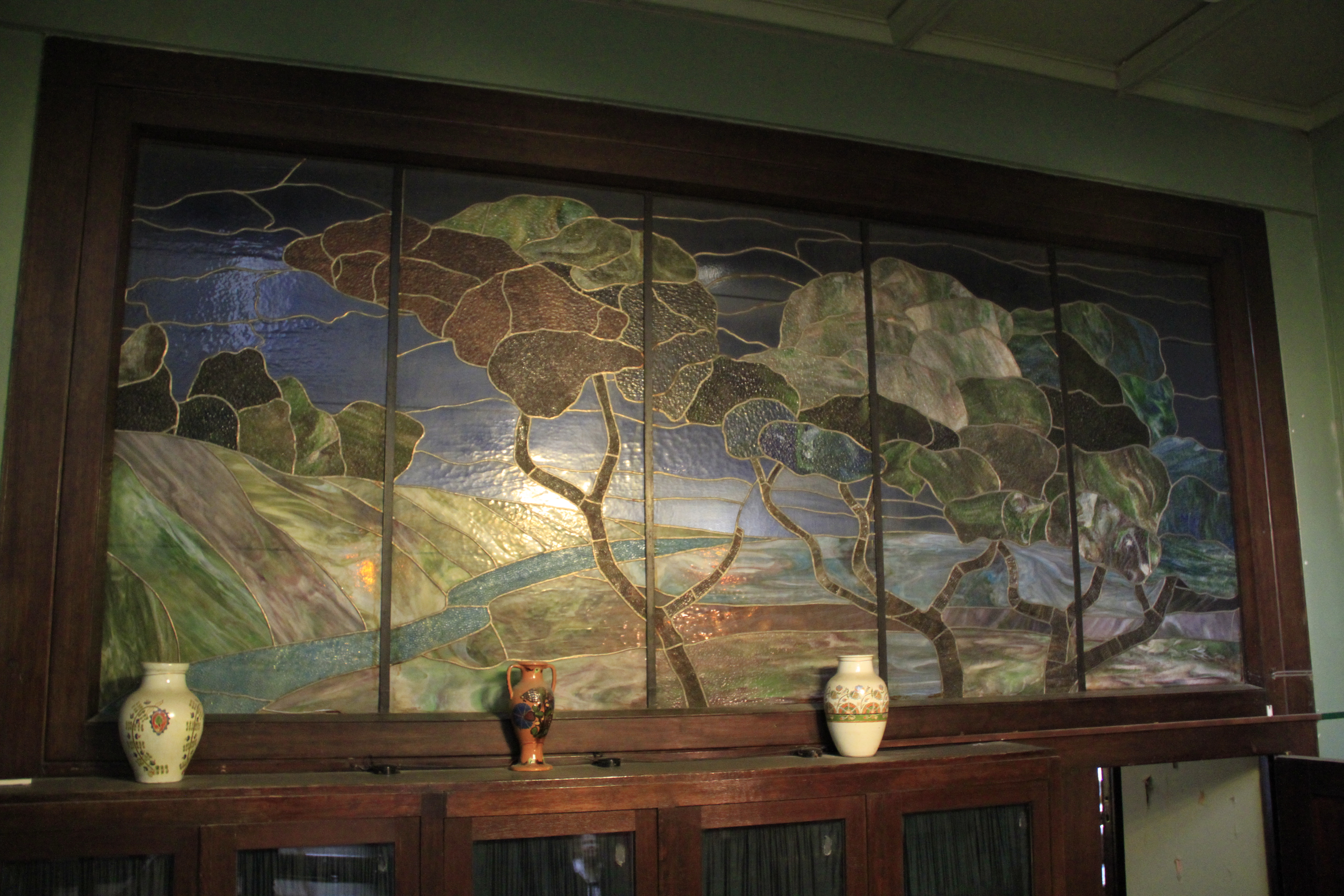 Moscow. Ryabushinsky House. Interiors. Main staircase